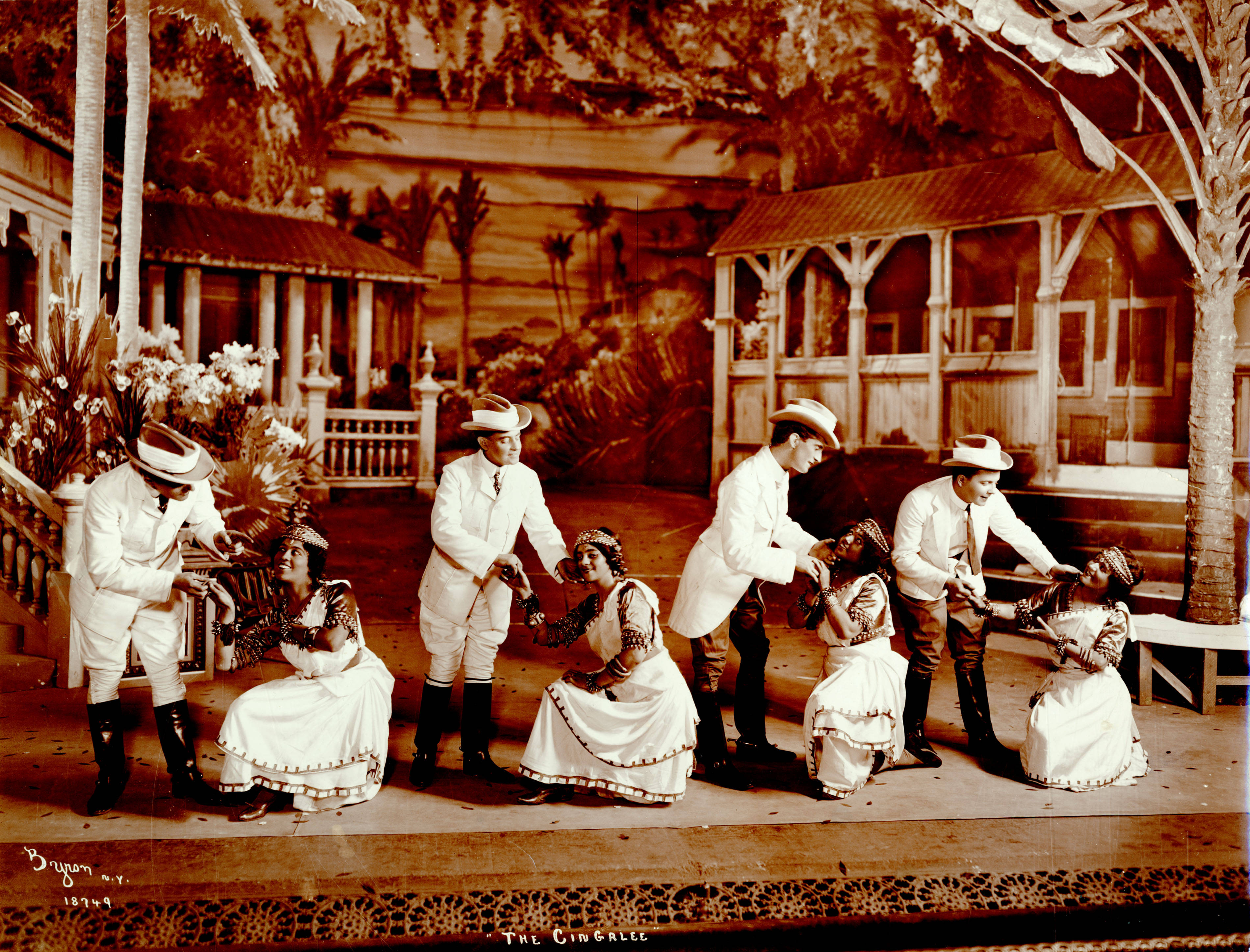 A scene from Act I of the "Cingalee," which opened at the Grand Theater, March 4, 1907. Dated Feb. 1907. Subjects: plays